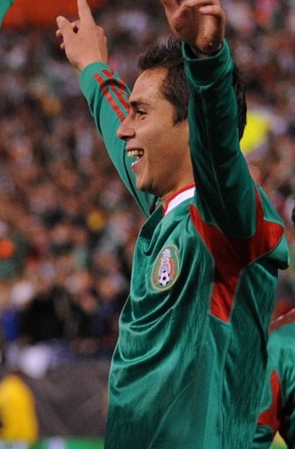 Mexico defeats Bolivia 5-0 in an international friendly on February 24th, 2010 in San Francisco, CA. Photo by Joe Nuxoll - .